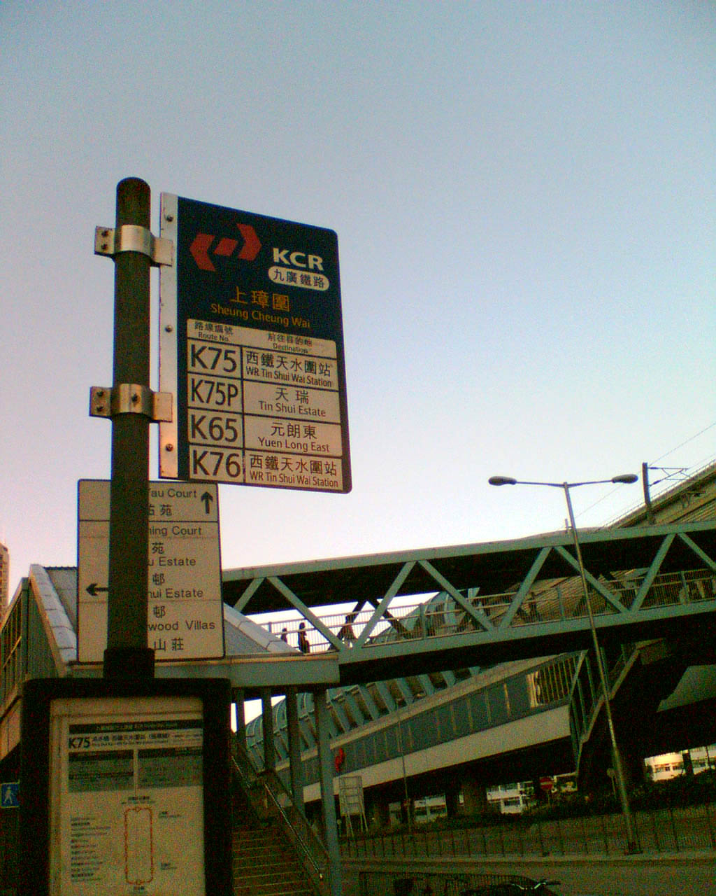 KCR Bus Stop